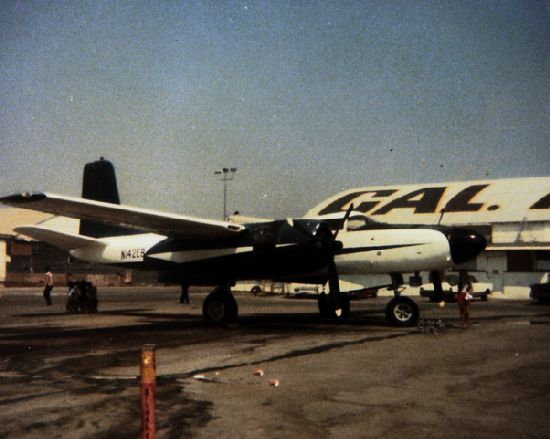 Catalog #: 00001404 Manufacturer: Douglas Designation: A-26 (B-26) Official Nickname: Invader Notes: Repository: San Diego Air and Space Museum Archive